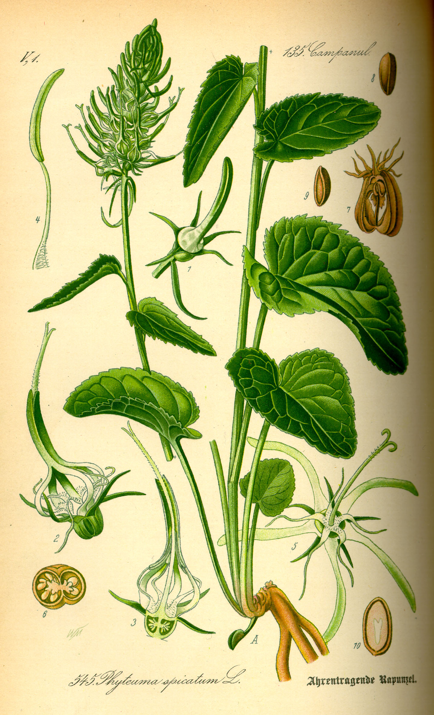 Name Phyteuma spicatum Family Campanulaceae